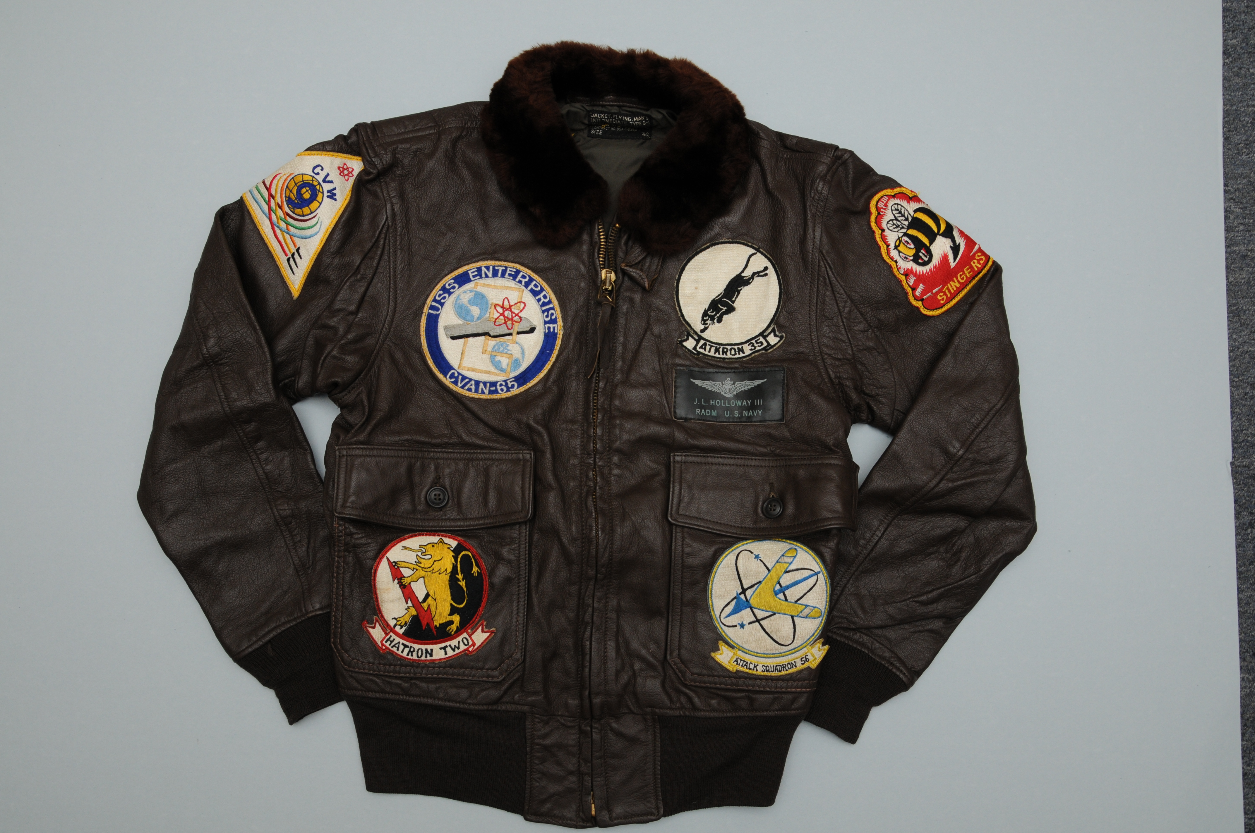 Accession: 2014.011.001 Flight Jacket, Admiral James L. Holloway III, Obverse Leather. Admiral Holloway's flight jacket with squadron and command insignia patches. Patches included on the jacket: VA-35 Attack Squadron 35 "Black Panthers," Heavy Attack Squadron 2, "Royal Rampants," Patrol Squadron 91, "Stingers," Reconnaissance Attack Squadron 7, "Peacemakers," Fighting 92, "Silver Kings," CVW-9 Carrier Wing Nine, and USS Enterprise. Admiral Holloway served in World War II, Korean War, and the Vietnam War. He was Chief of Naval Operations from 1974-1978. Collection of Curator Branch: Naval History and Heritage Command.